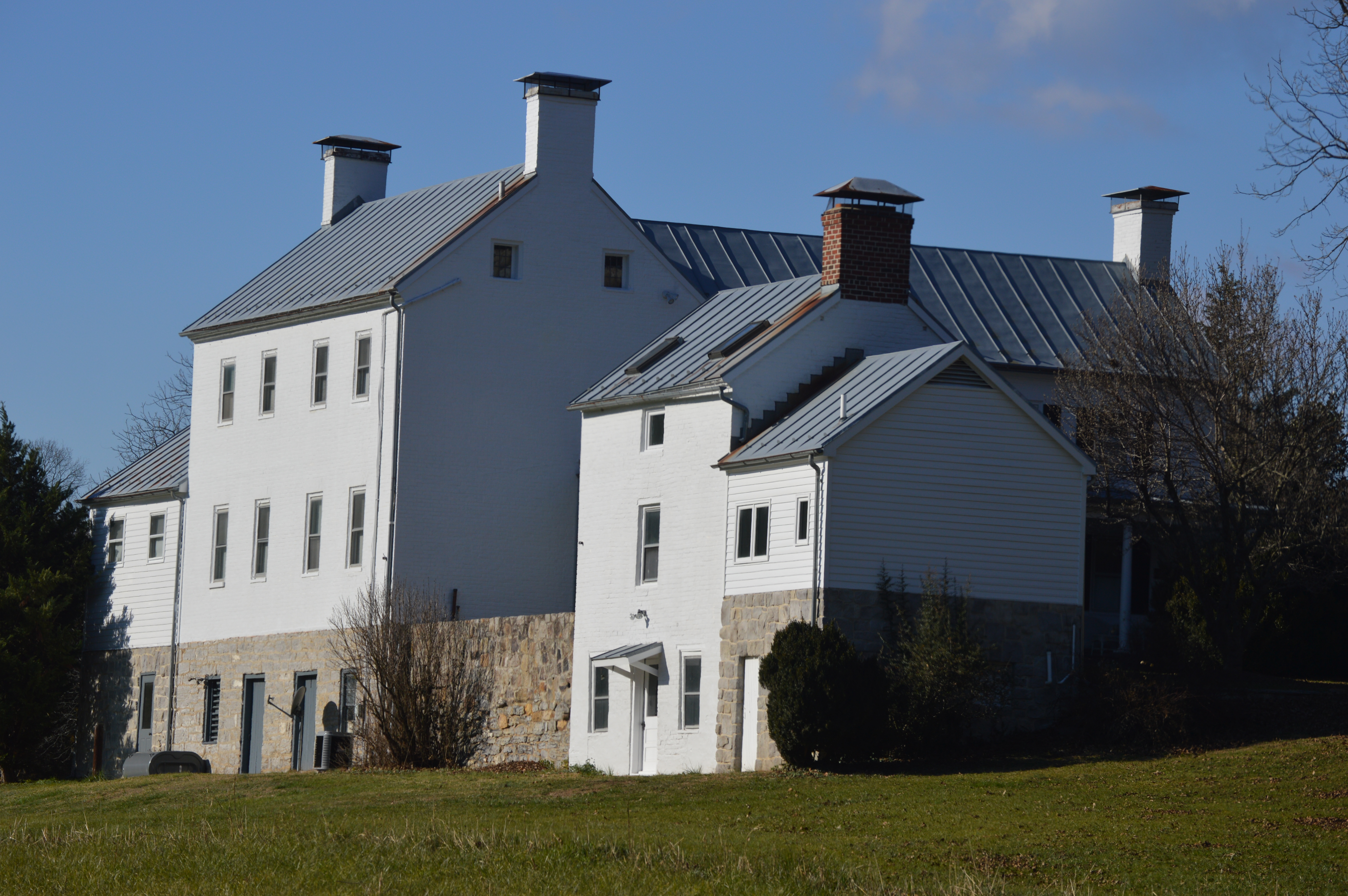 Rear (southern side) of the Abraham Beydler House, located at 2748 Zion Church Road southeast of Maurertown in Shenandoah County, Virginia, United States. Built in 1800, it is listed on the National Register of Historic Places.